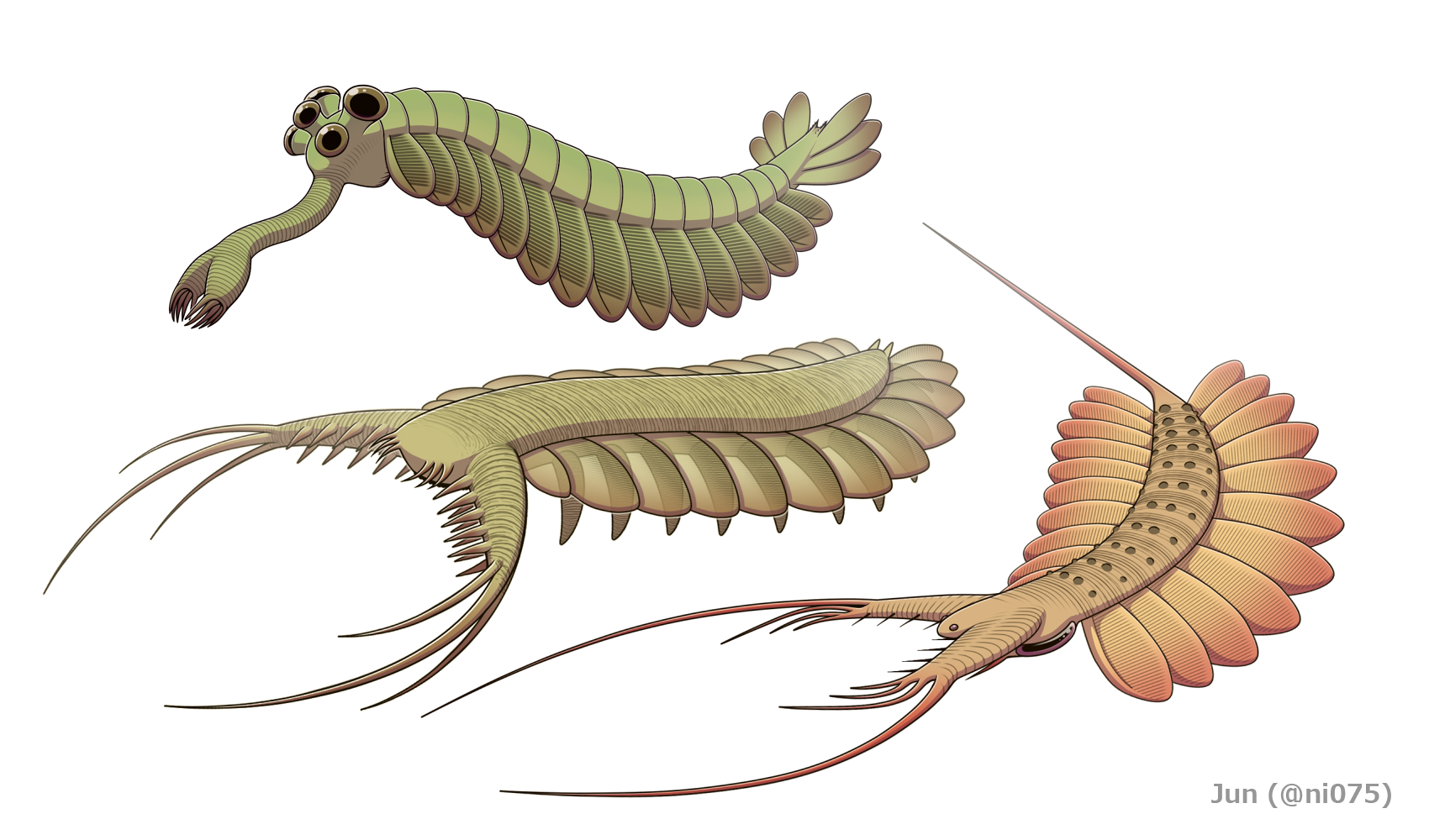 Examples of "gilled lobopodians" (dinocaridid、stem-group arthropod). Size not to scale.